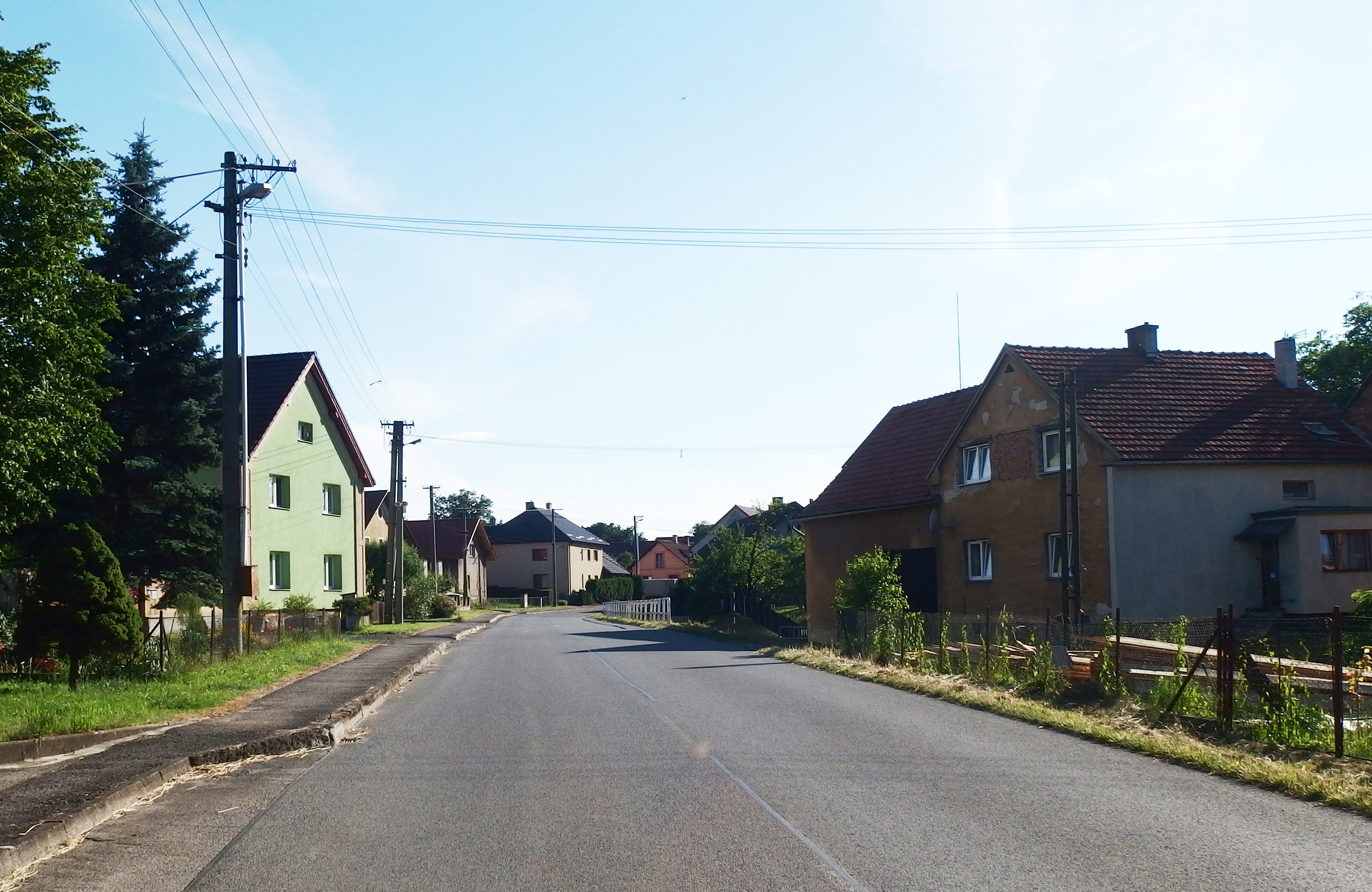 Starý Jičín, Nový Jičín District, Czech Republic, part Jičina.